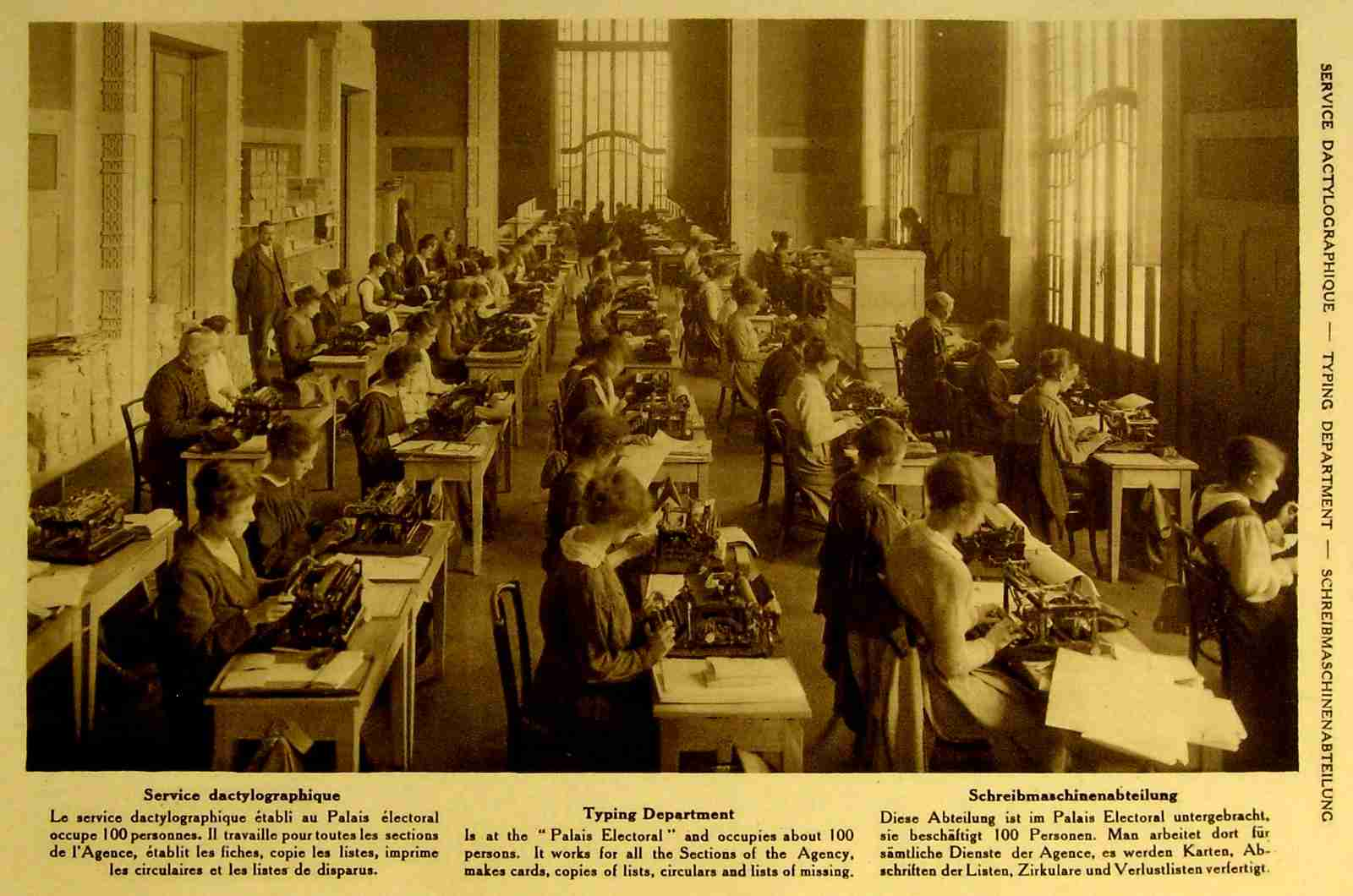 AIPG album p23 (Red Cross History)